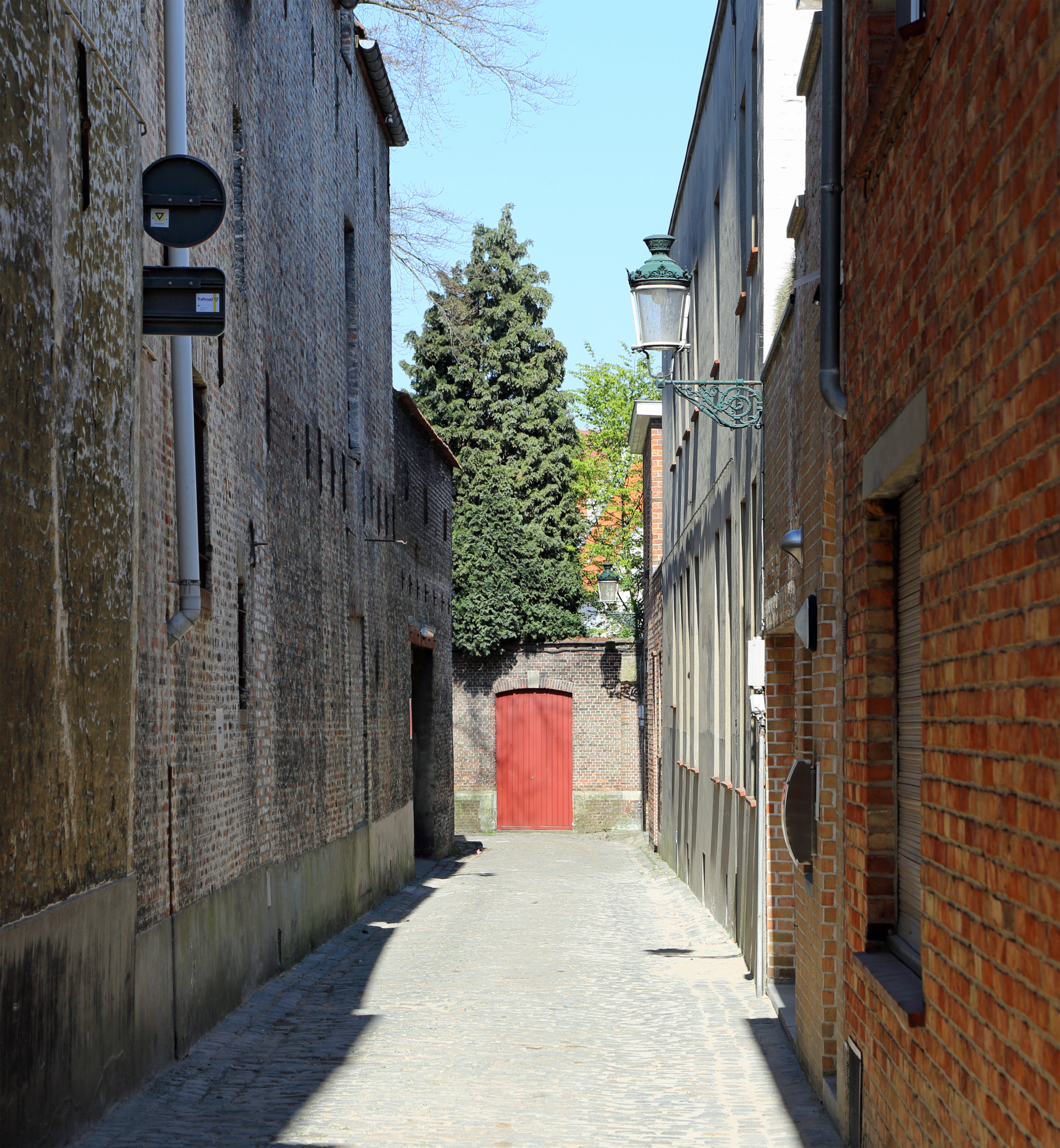 Bruges (Belgium): Haanstraat